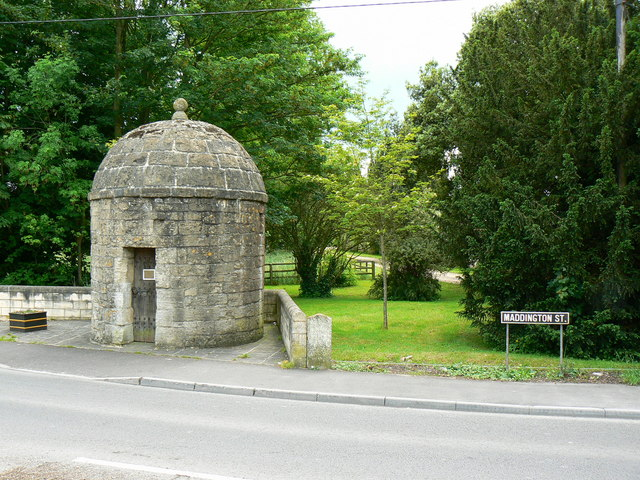 The Blind House, Maddington Street, Shrewton, Wiltshire, built about 1700. The brass plaque on the door states, "The Blind House, Village criminals were kept in this 18th century prison", with translations into French and German. The last sentence on the plaque reads, "Property of Shrewton Parish Council. Protected by law as an ancient monument. Silver Jubilee Year 1977". Just to the right of the Blind House is a late 18th-century milestone, inscribed "LXXXIV / Miles from / LONDON VI from Amesbury".